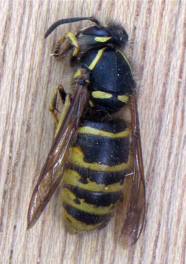 Dolichovespula saxonica